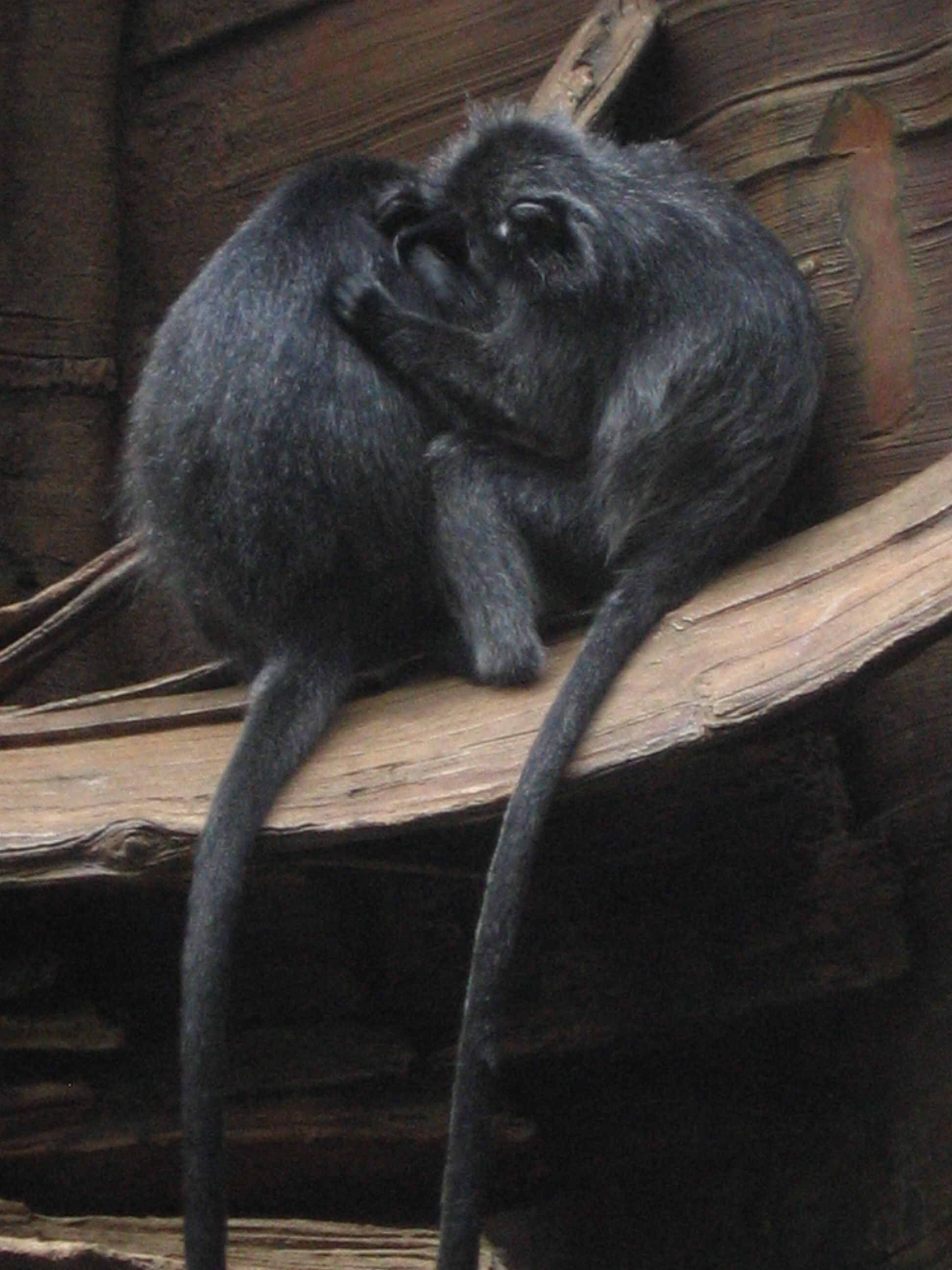 Silvered Leaf Monkeys (Trachypithecus cristatus). Bronx Zoo, New York City.